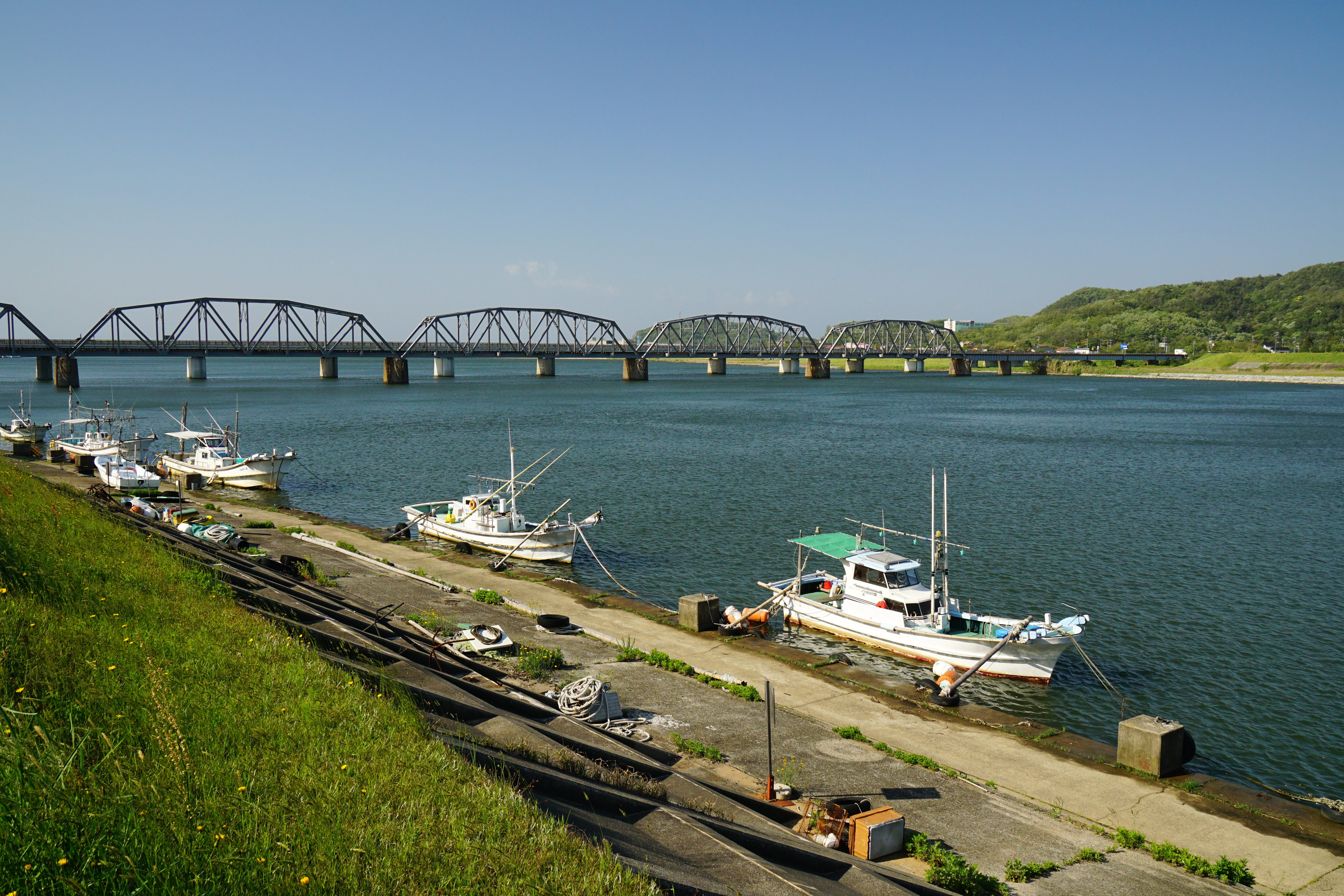 Gōnokawa River at Gotsu, Shimane prefecture, Japan